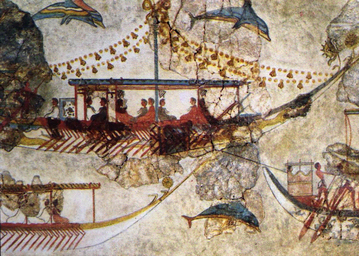 Akrotiri-Thera fresco fragment, exposed at the National Archaeological Museum of Athens.